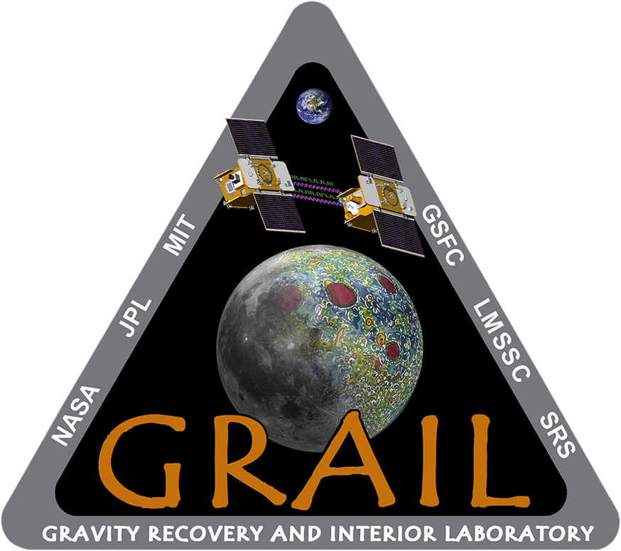 GRAIL mission logo.